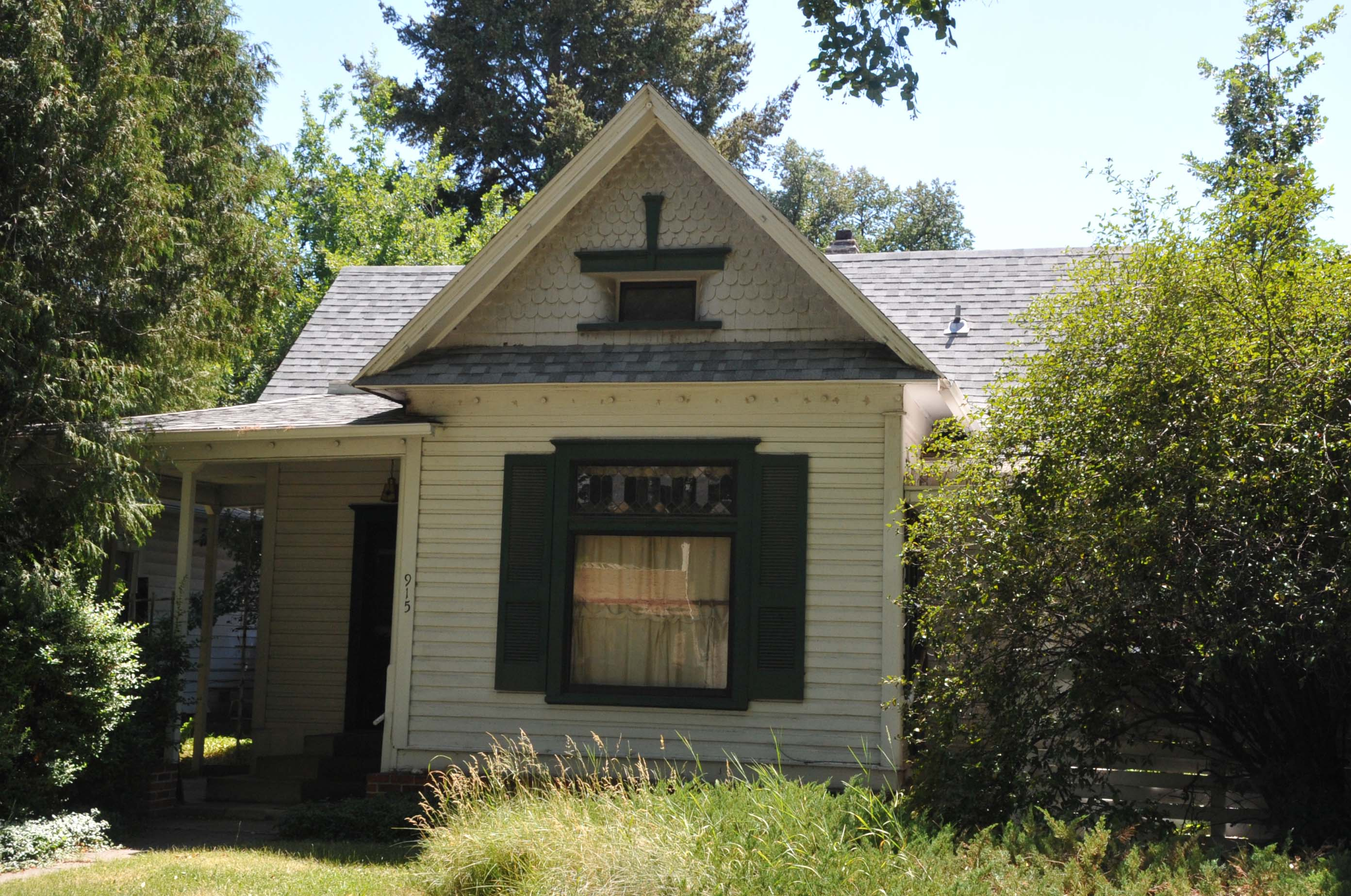 1903 VICTORIAN QUEEN ANNE